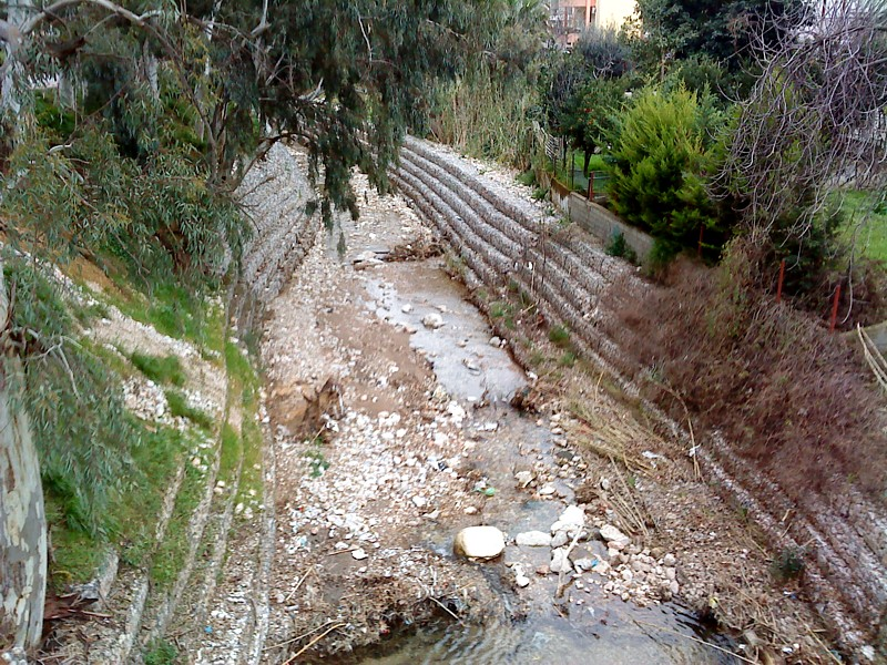 Rema Chalandri